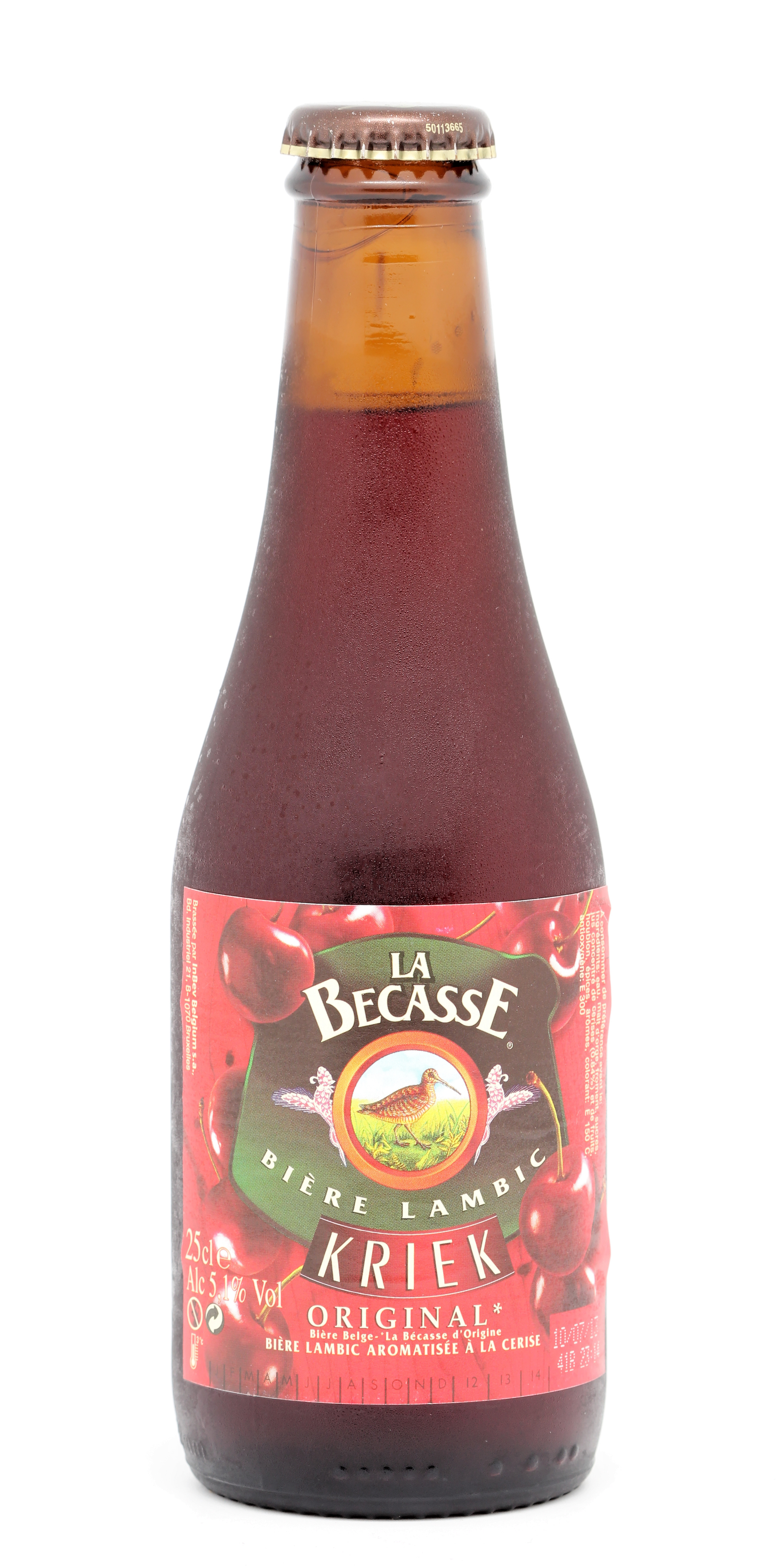 A bottle of lambic kriek la Bécasse original 25cl